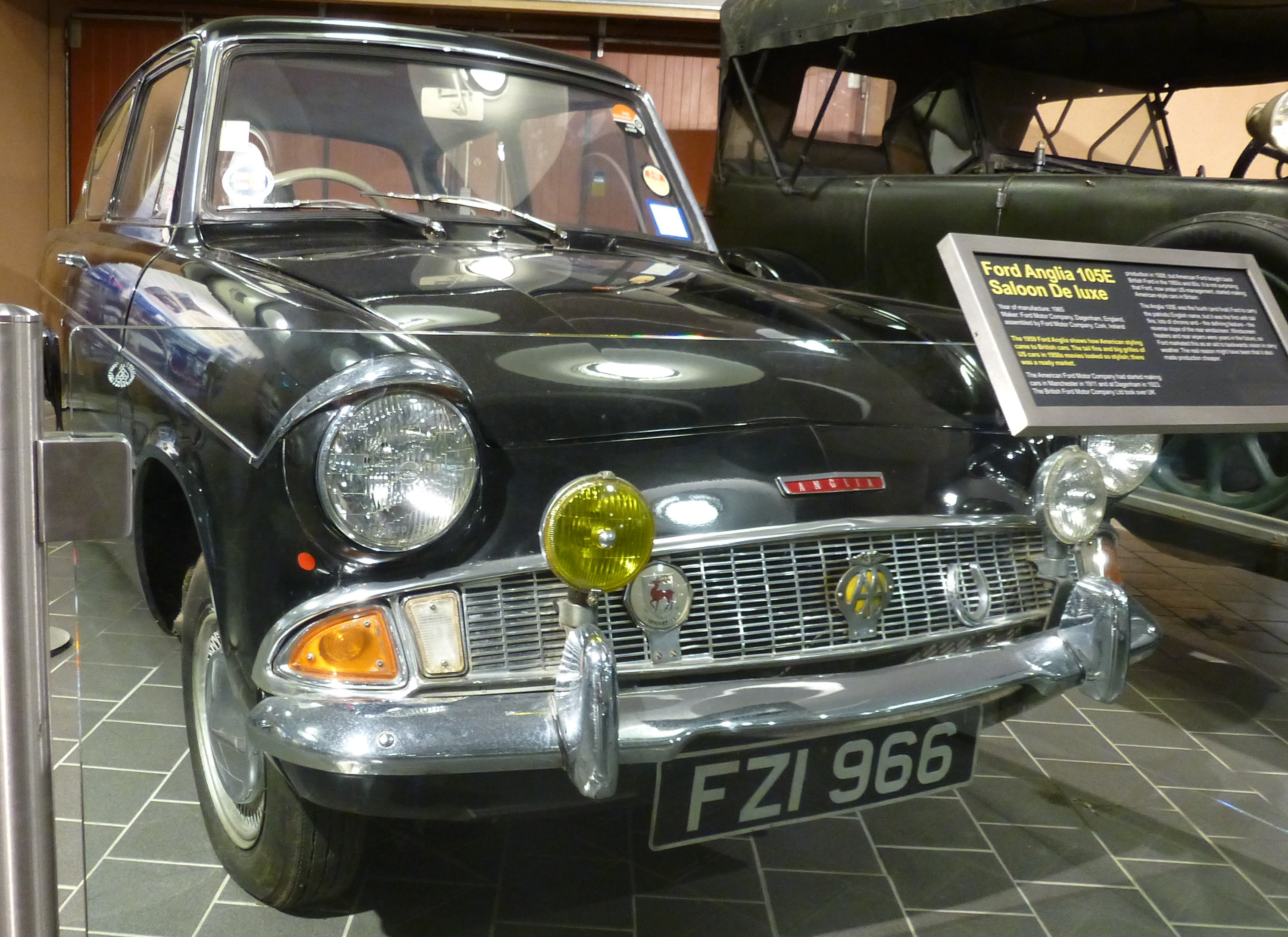 Ford New Anglia von Henry Ford & Son aus Irland